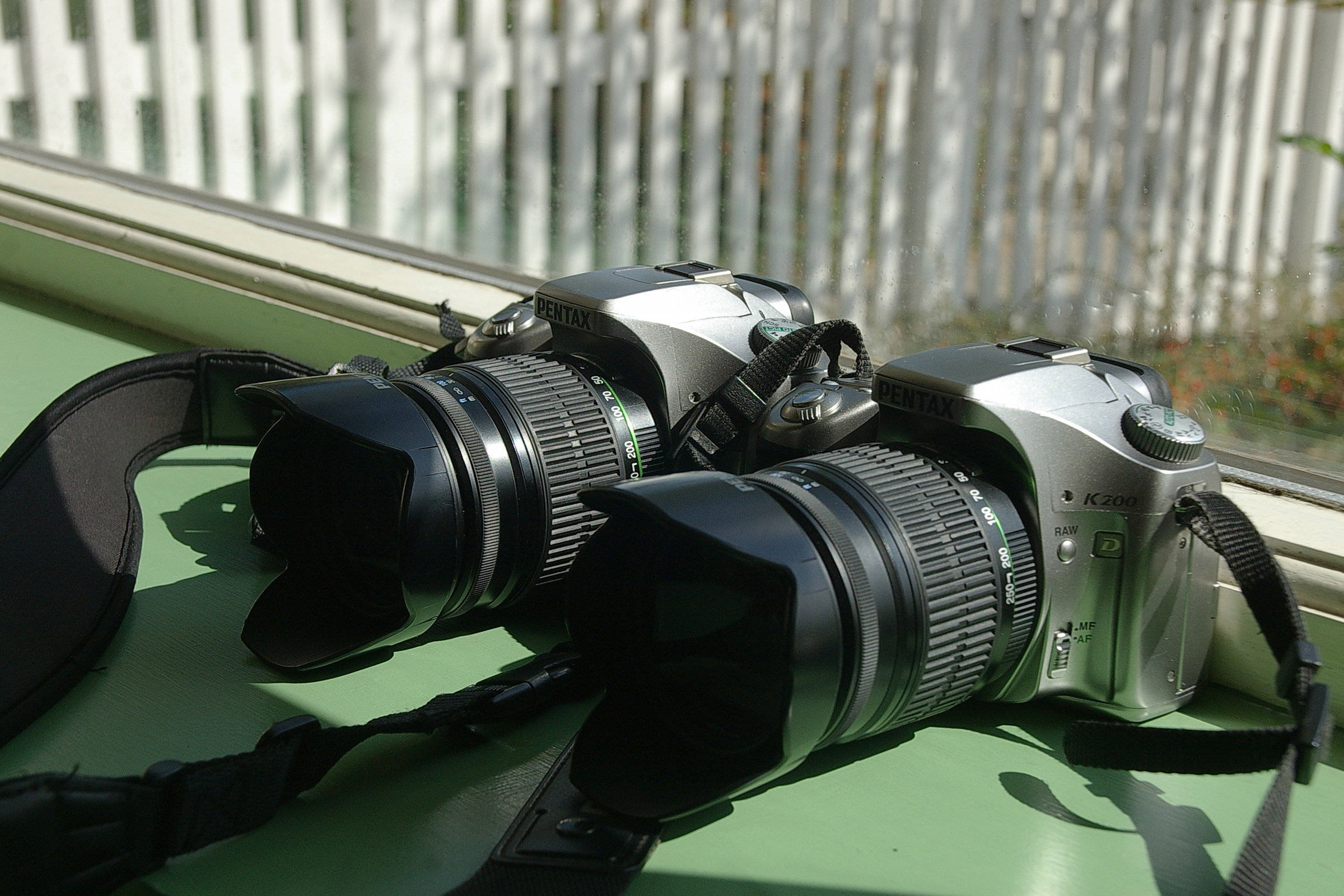 Two Pentax K-200D cameras.